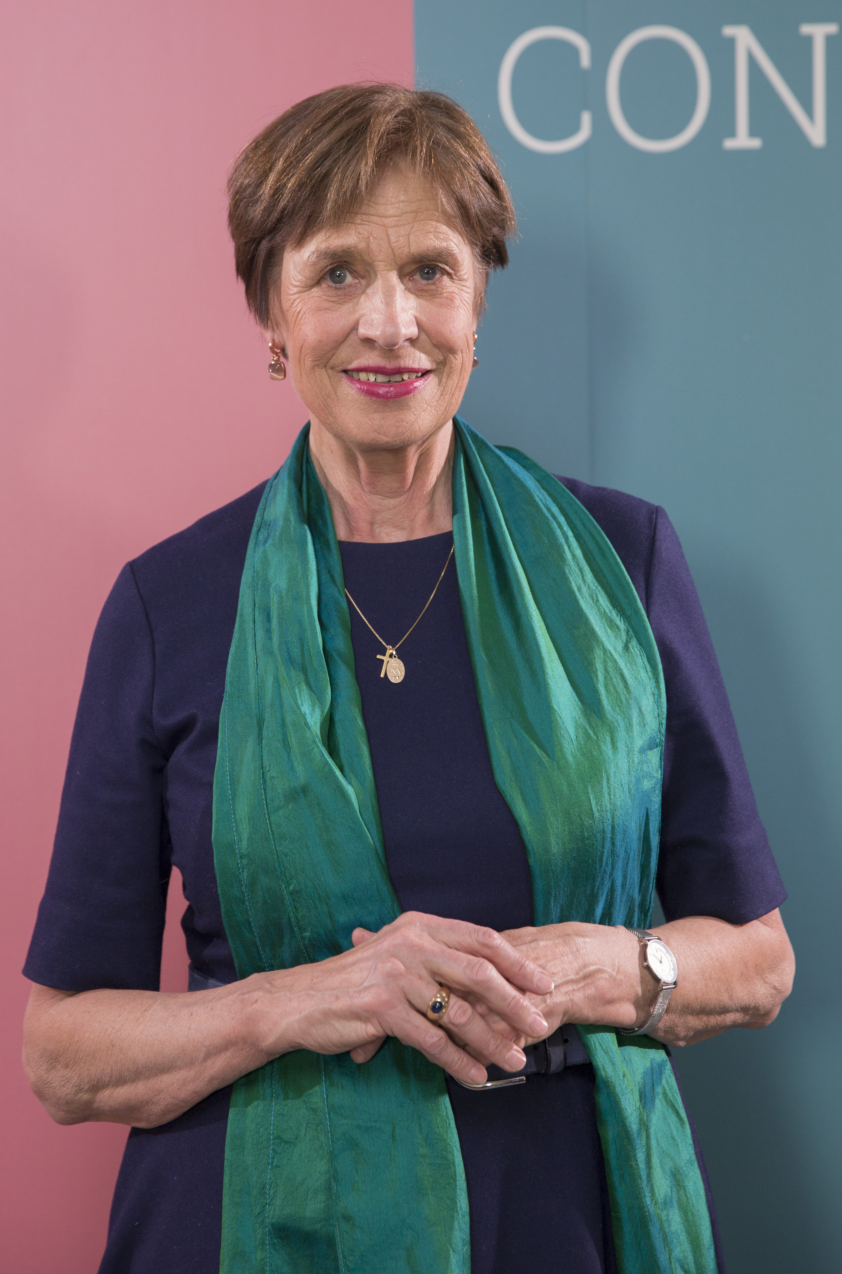 Gabriele Kuby (2018)